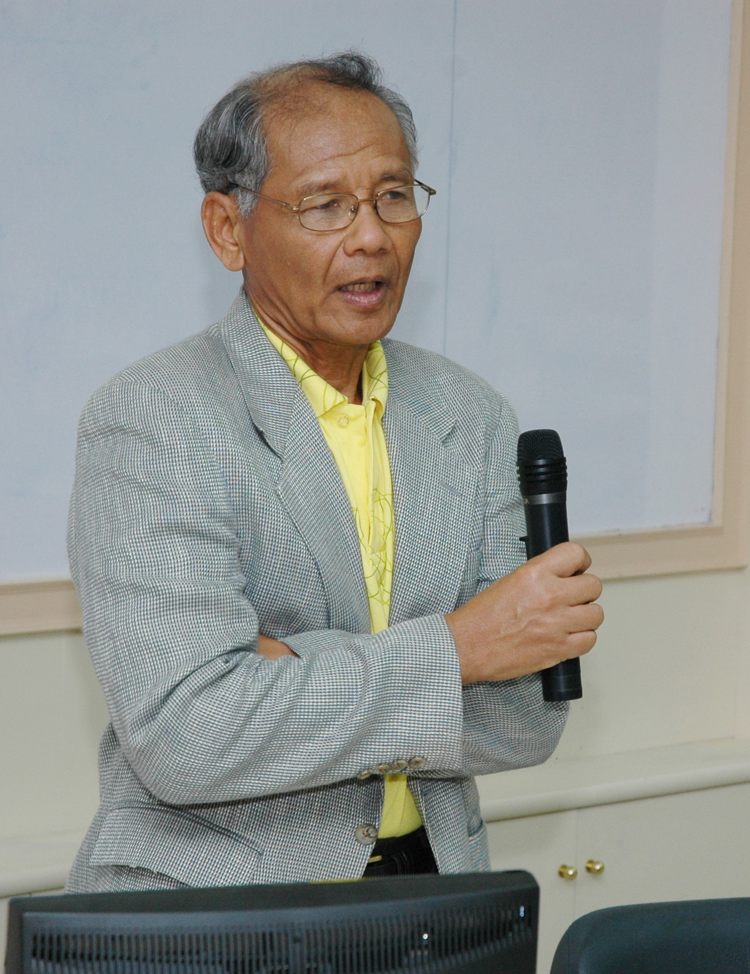 Dr. Sawai BOONMA: Ex-World Bank Senior Country Economist